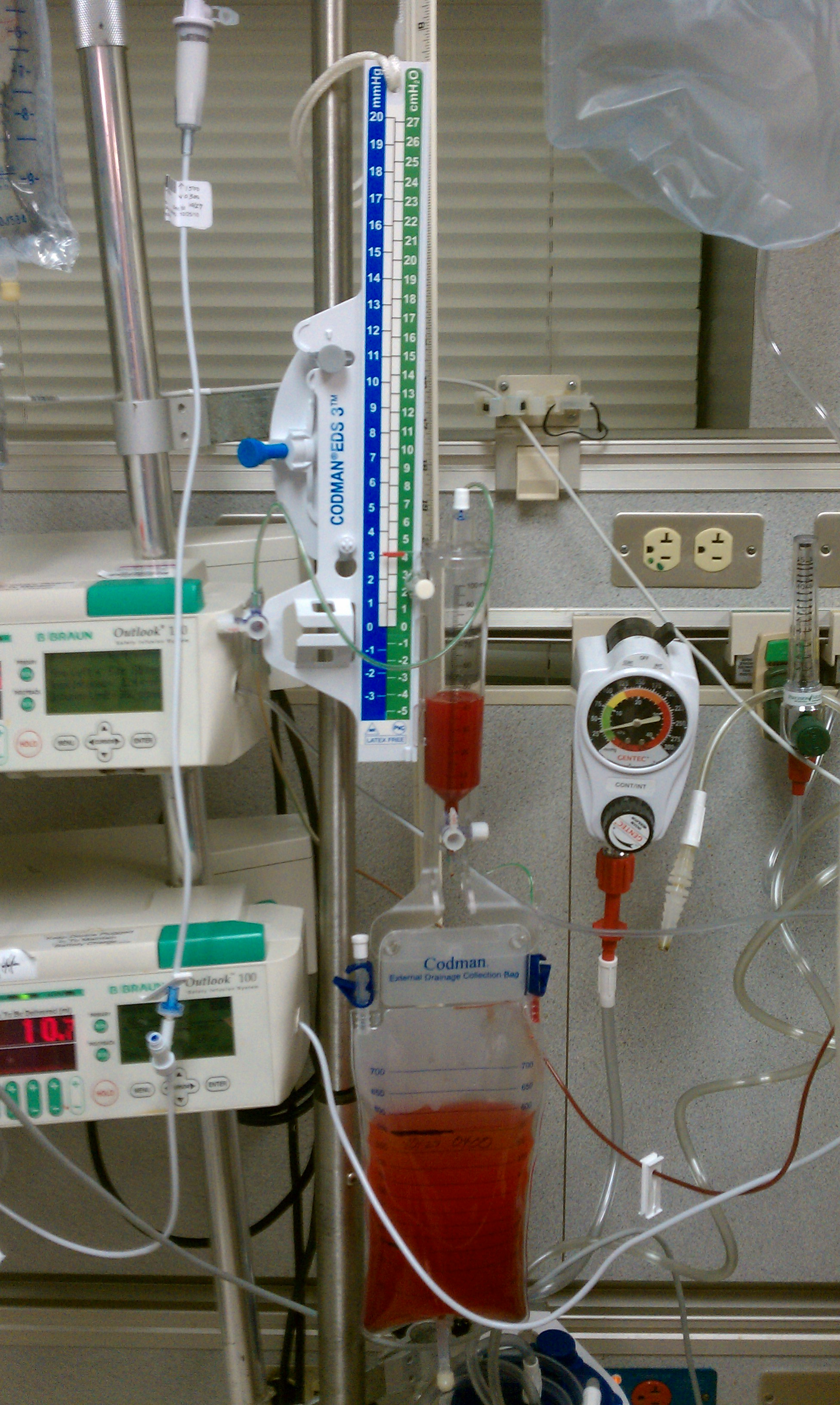 Medical equipment, focusing on External Ventricular Drain. Drain is leveled 4 cm above the external auditory meatus. CSF in drain is bloody from a subarachnoid hemorrhage due to a spontaneous ruptured aneurysm.